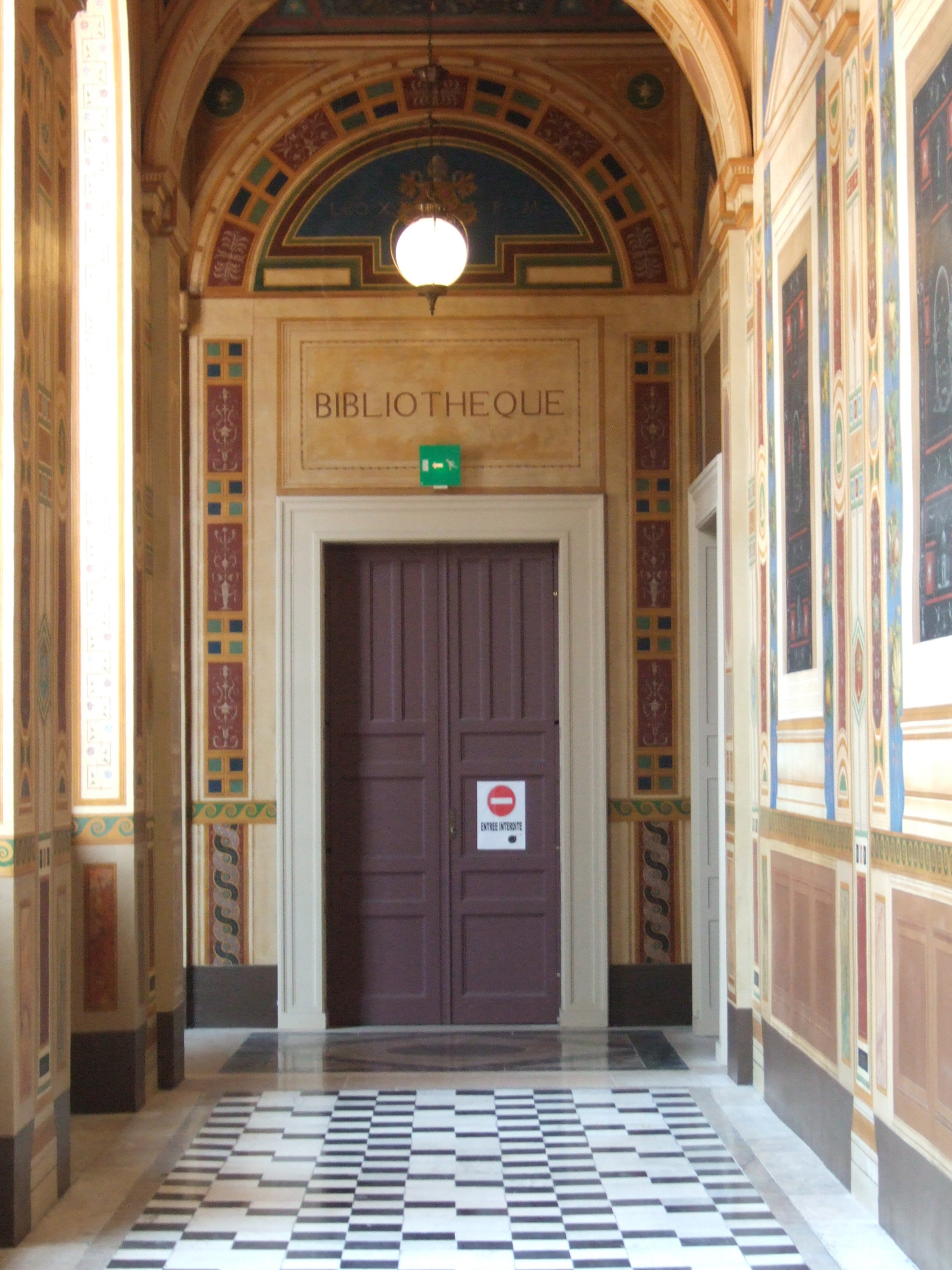 Ecole nationale superieure des Beaux-Arts, Paris, Ensba, Bibliothek, Palais des Études